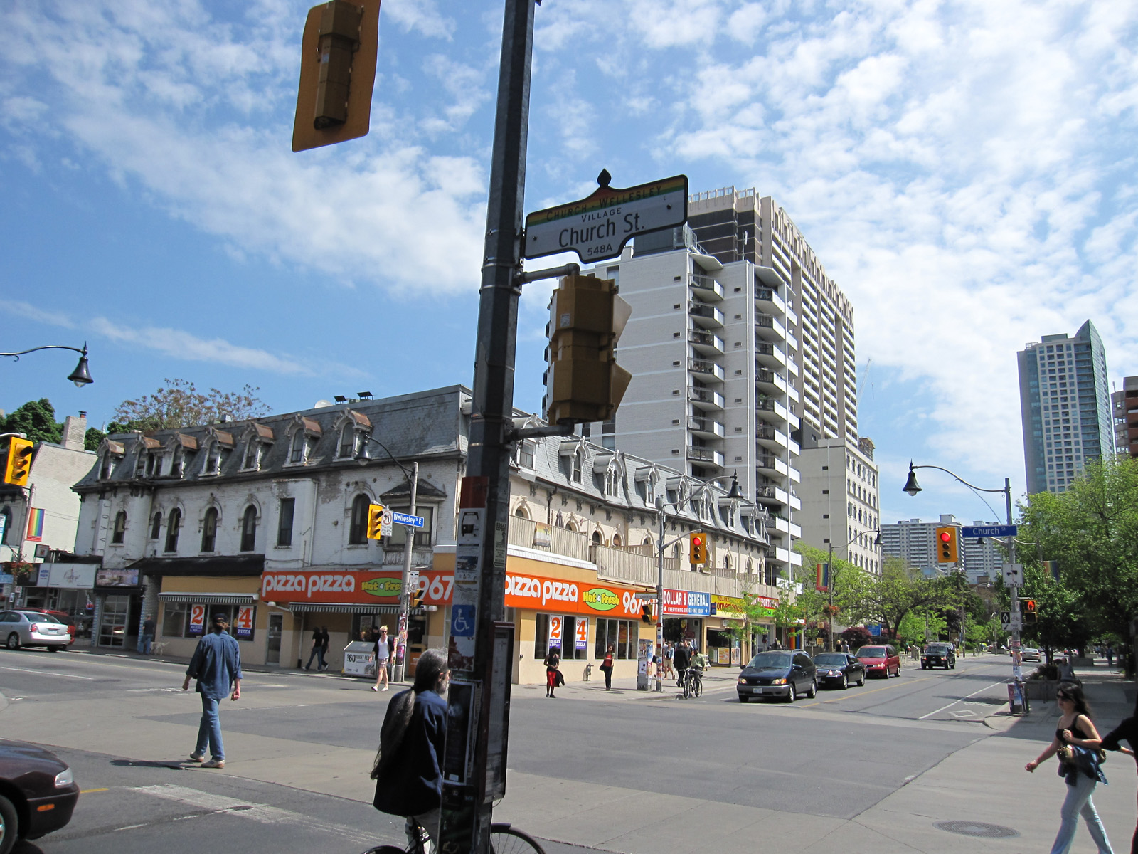 This is the focal intersection of Toronto's gay neighborhood. If San Francisco has Market & Castro, and New York City has Christopher Street, this is Toronto's counterpart.